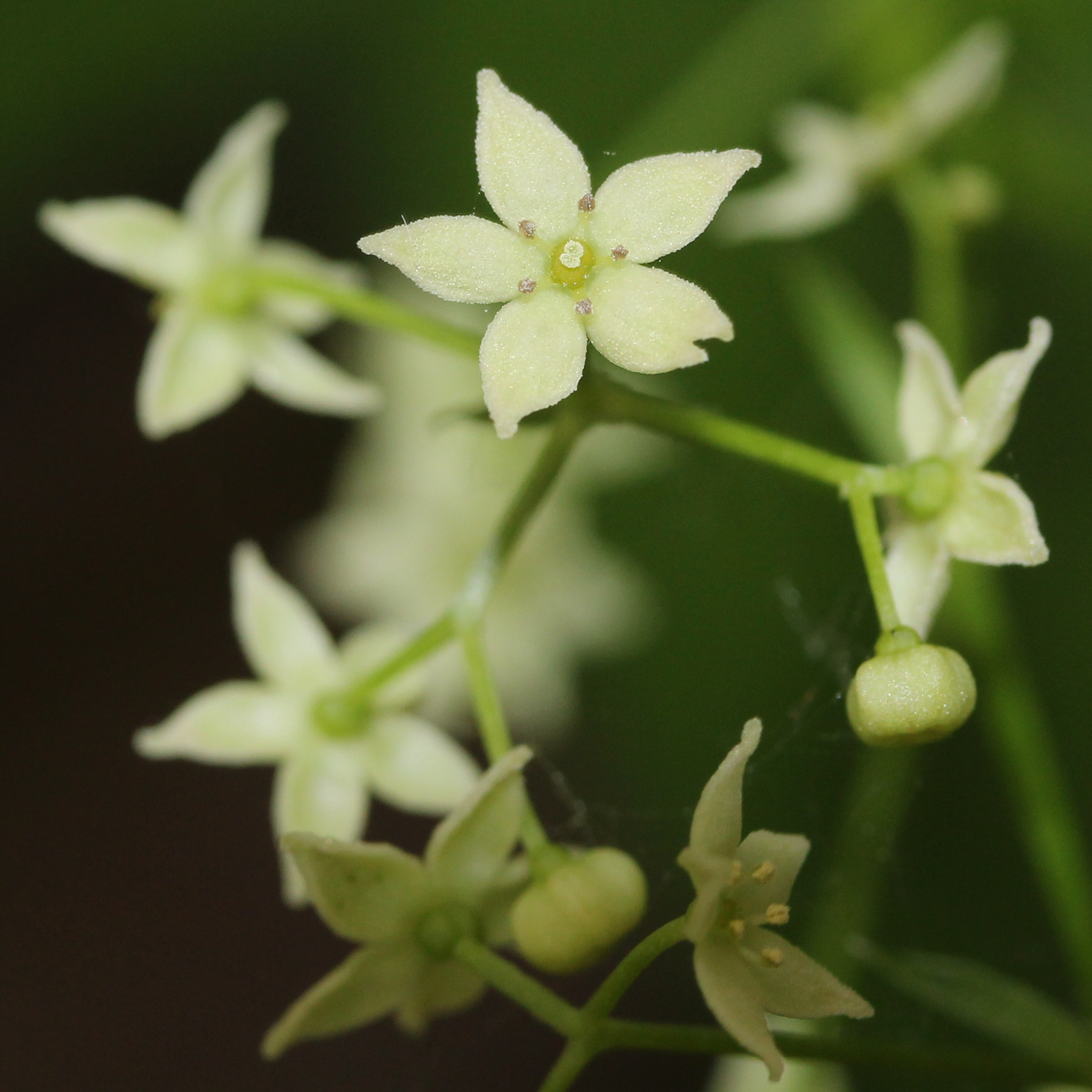 Rubia chinensis f. mitis, in Mount Ibuki, Ibigawa, Gifu prefecture, Japan.